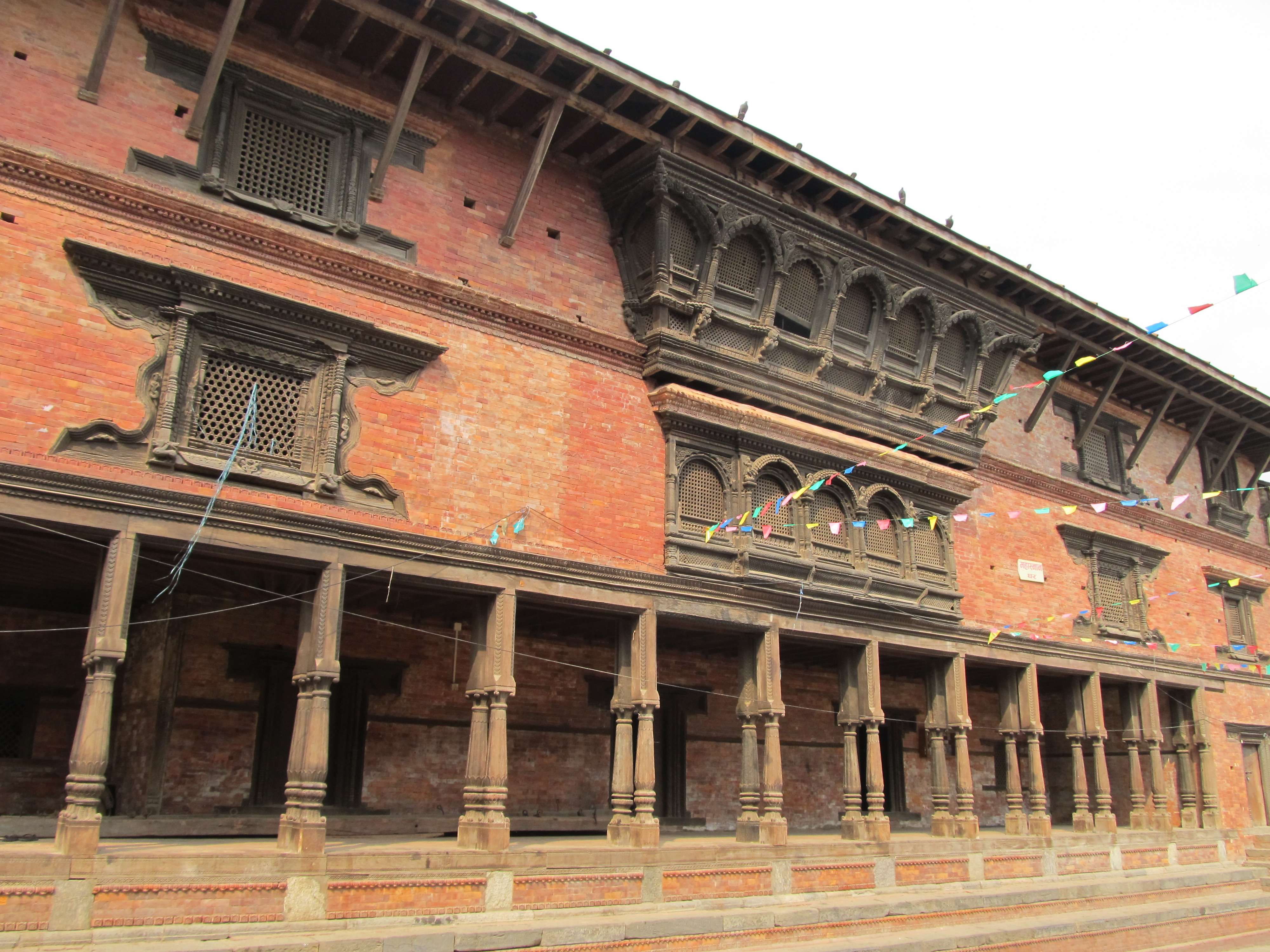 Pashupatinaath temple grounds: building at the north-western entrance